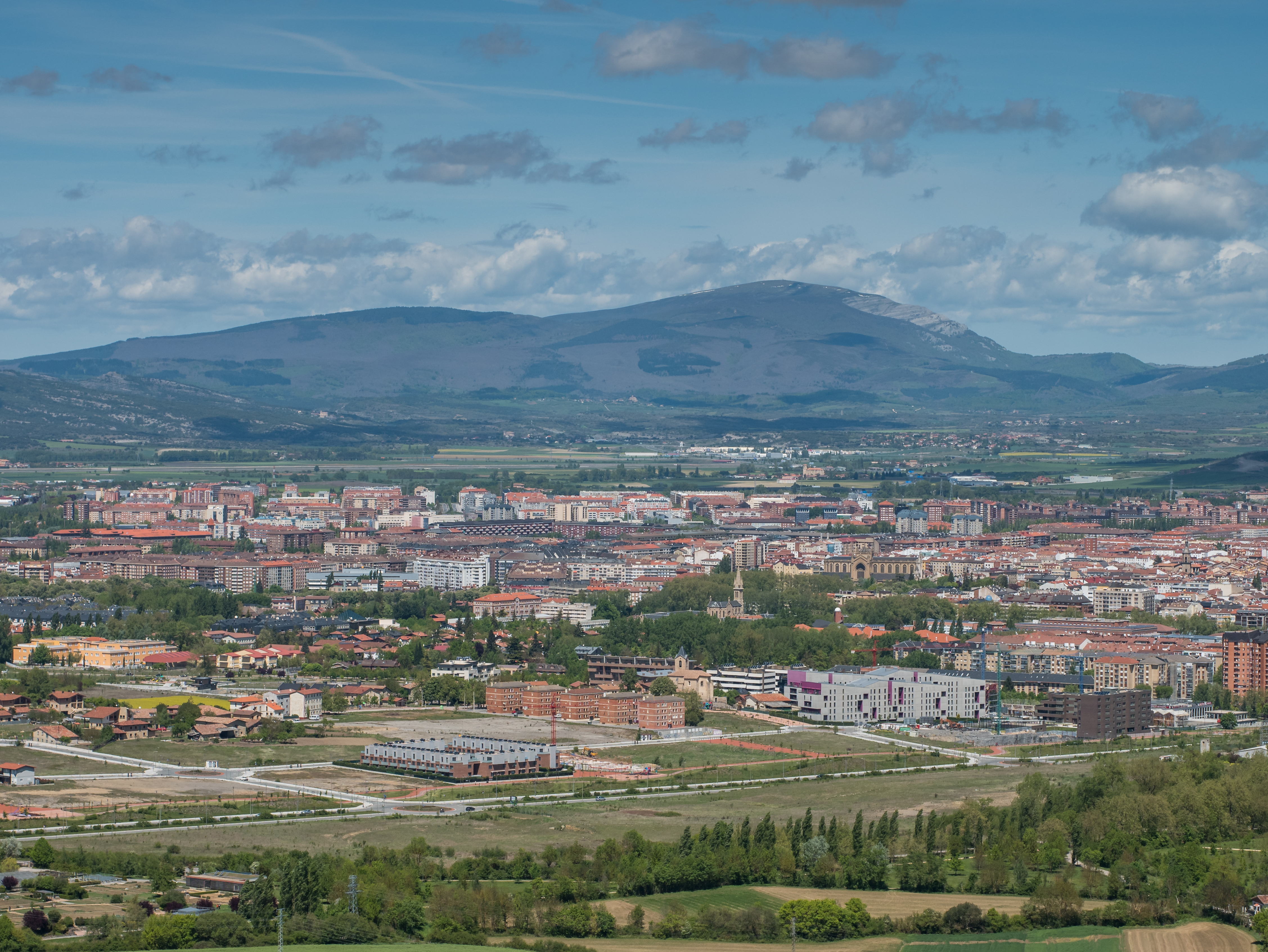 Panoramic view over Vitoria-Gasteiz, from the summit of Olarizu, towards the San Martín quarter; in the back, the Gorbea mountain range. Basque Country, Spain